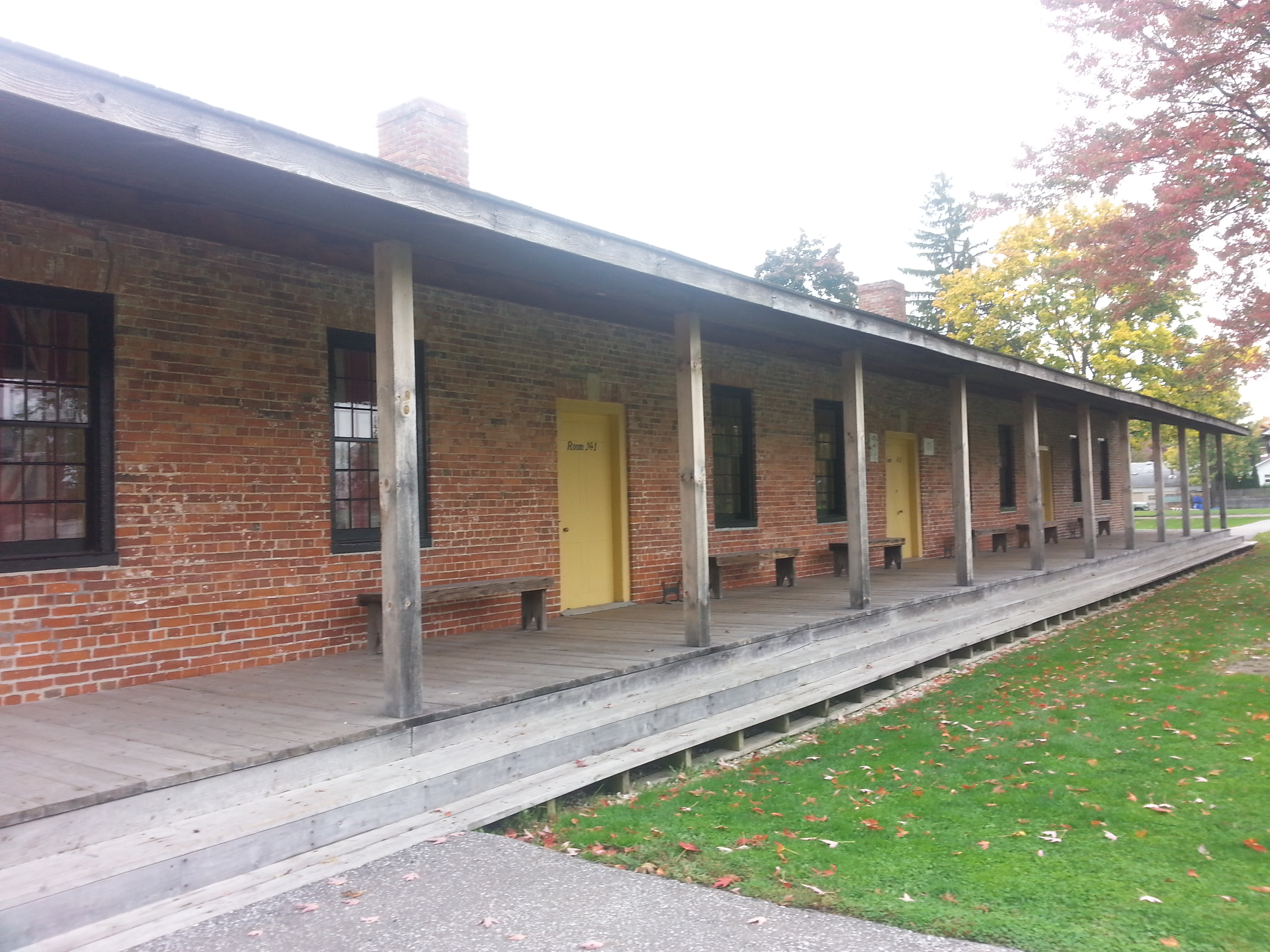 Barracks built during the asylum years of Fort Malden